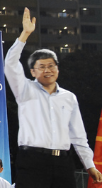 Png Eng Huat with members of the Workers' Party of Singapore who contested East Coast Group Representation Constituency during the Singaporean general election, 2011 (Gerald Giam, Mohamed Fazli bin Talip, Eric Tan and Glenda Han), at a rally at Bedok Stadium, Singapore.